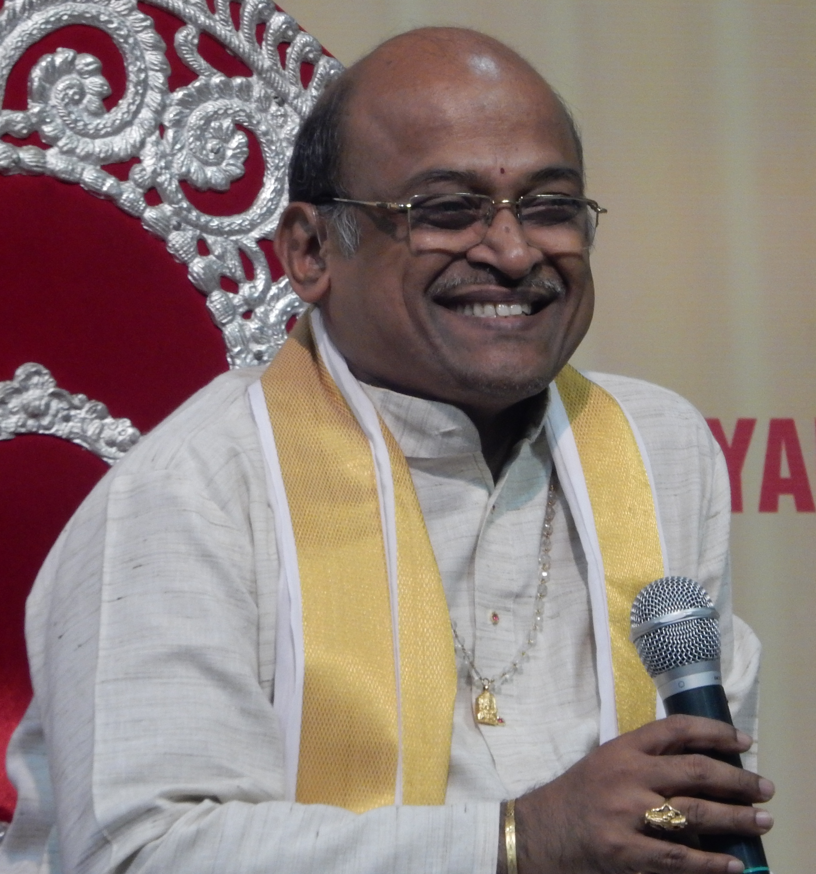 Garikapati Narasimha Rao in March 2015